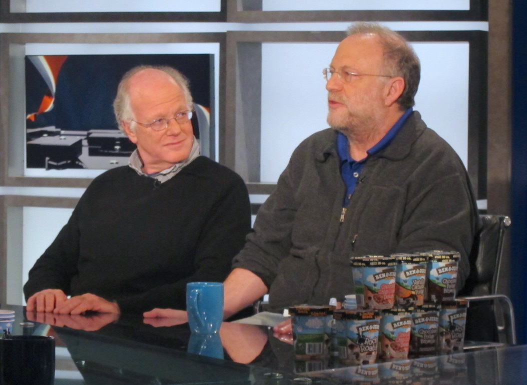 Ben Cohen and Jerry Greenfield of "Ben and Jerry's" announce the launch of their "Get the Dough Out of Politics" campaign on Monday February 13, 2012 on The Dylan Ratigan Show.